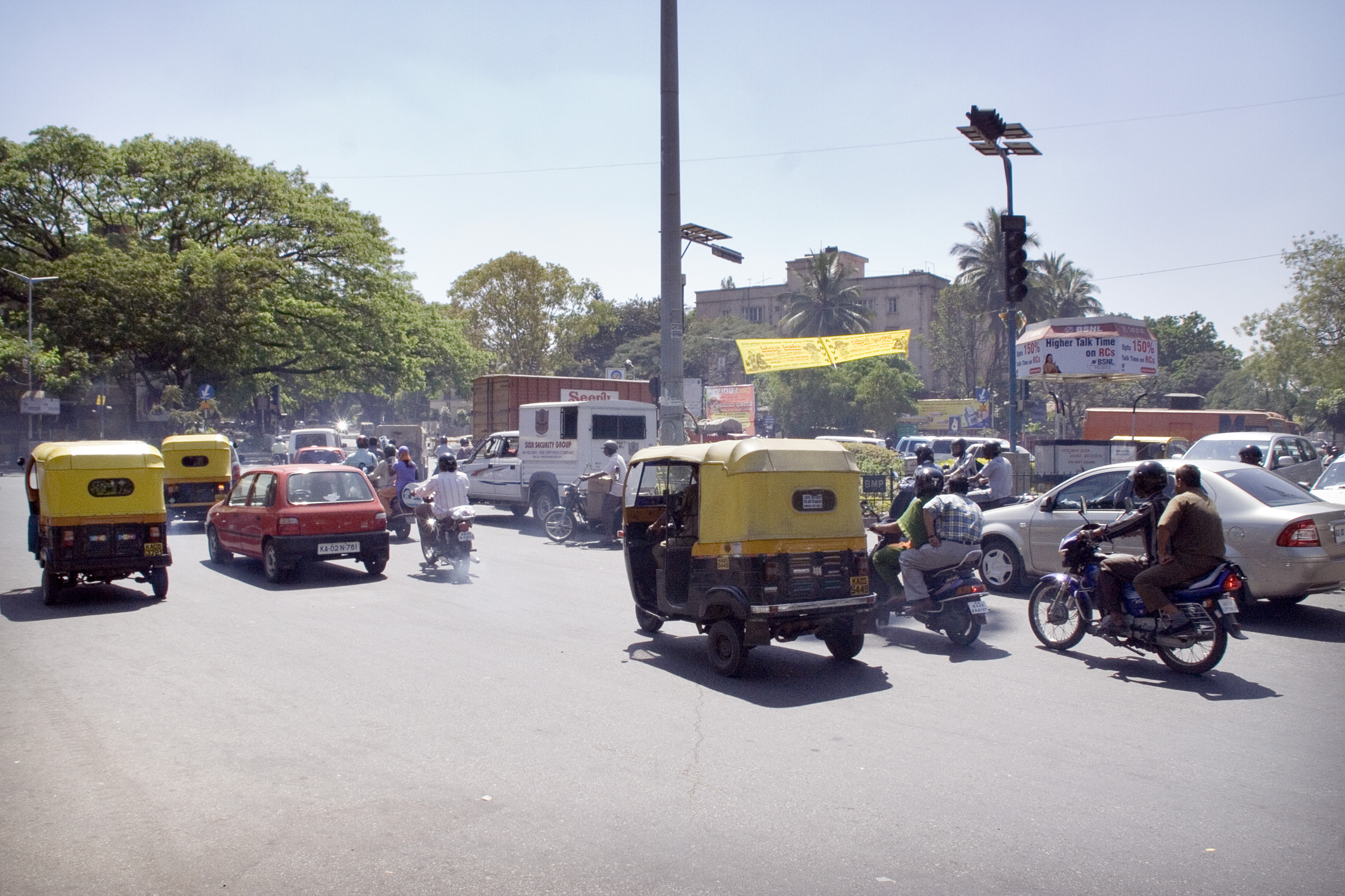 Another glimpse of the utter and complete chaos that is traffic in Bangalore, India. What's missing in this photograph is the insane change of lanes happening all the time (due to the fact that there really aren't any lanes - in itself a not so comforting thought), motorcycles forcing themselves in wherever they can fit, people on bikes, auto rickshaws, cars, buses, taxis operated by crazy people, wagons pulled by horses, pedestrians crossing wherever they dare to, entire families riding on bicycles (two parents and two kids seems rather common), people driving in the opposite lane if it's free, people driving on the sidewalk if they have to and of course the constant banging on the horn. Insanity defined.